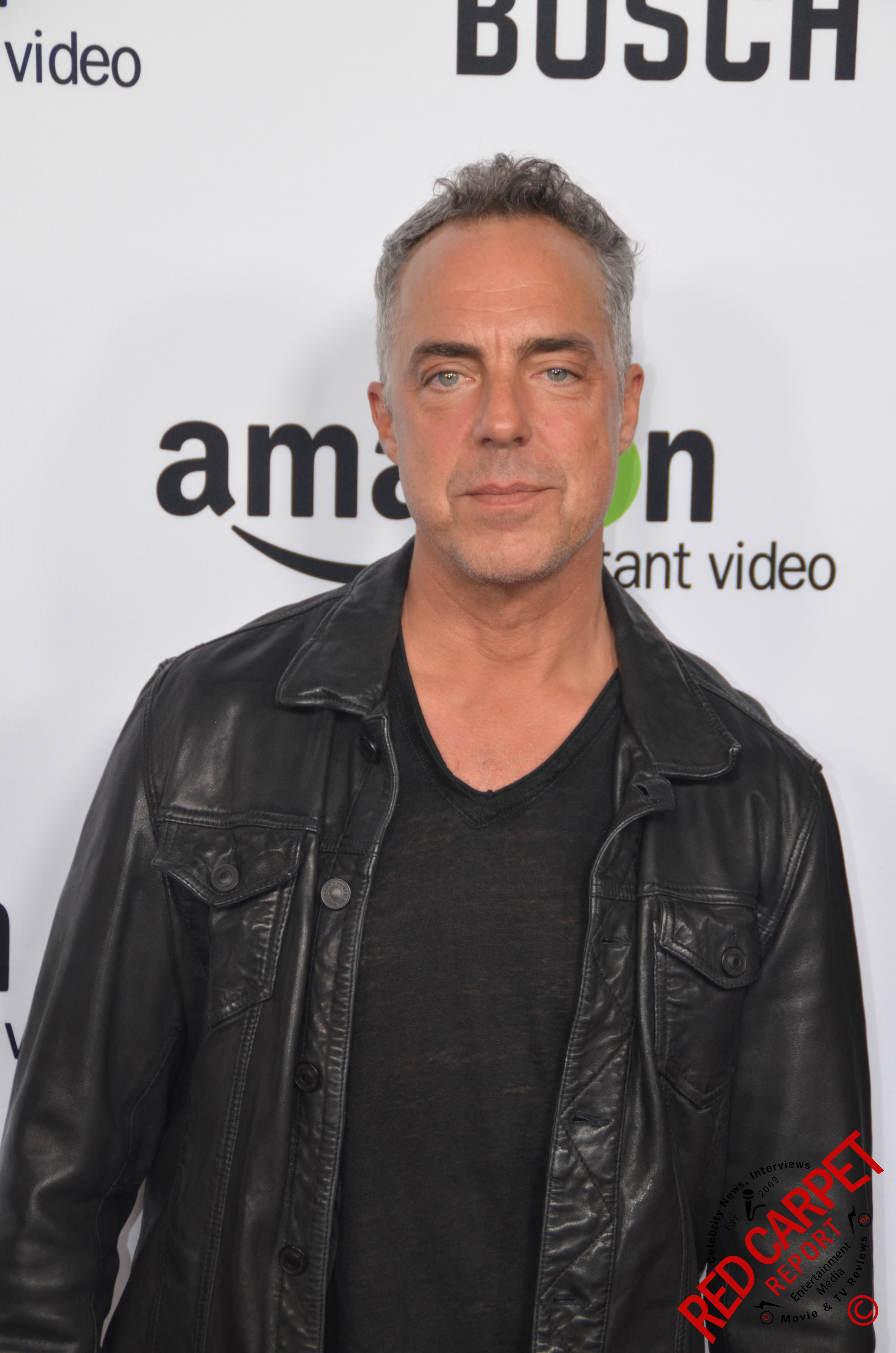 Titus Welliver in 2015